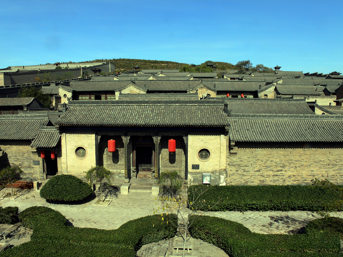 Fragrance Yard at Hongmenpu, Lingshi